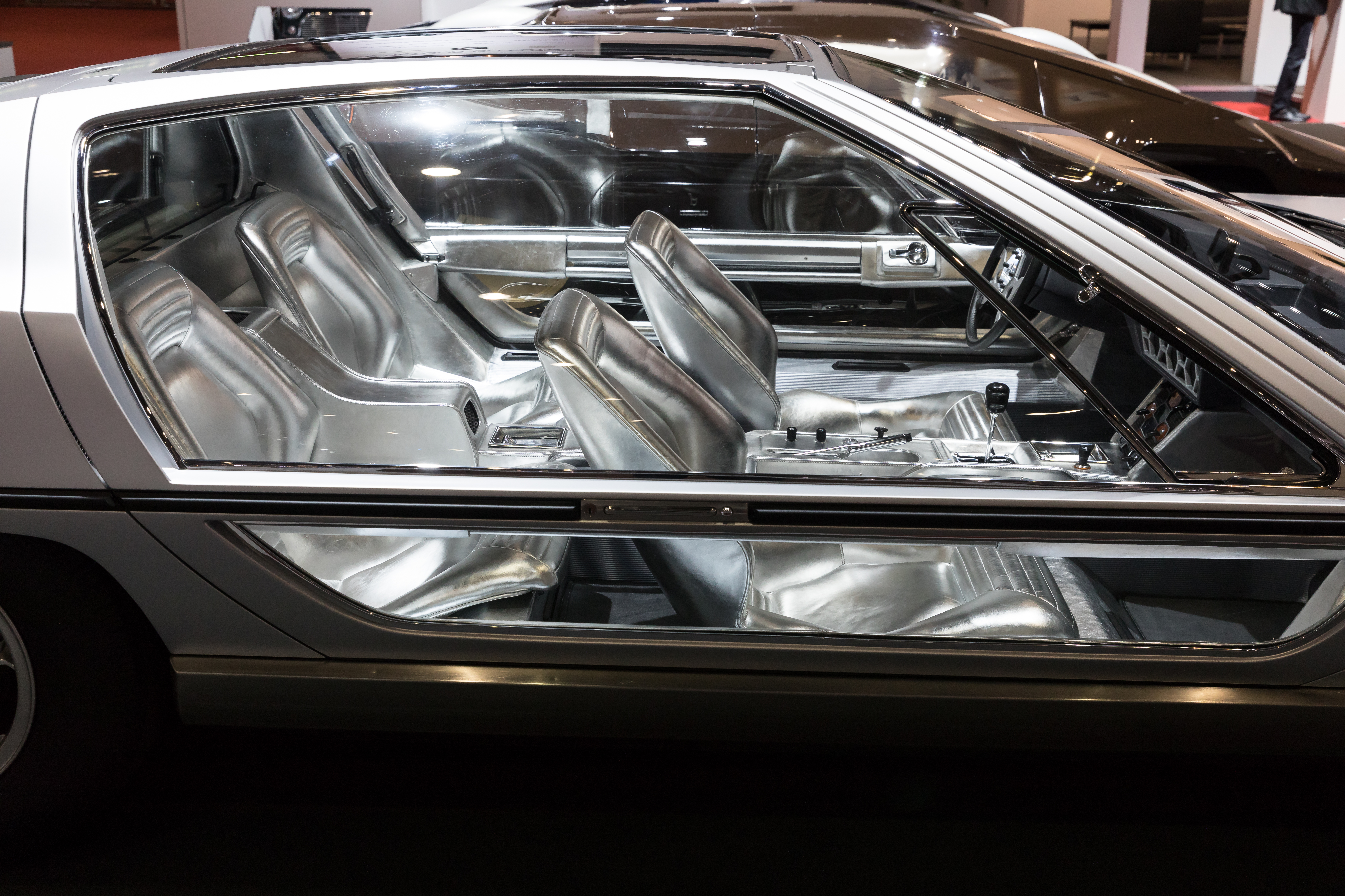 Lamborghini Marzal at Geneva International Motor Show 2018